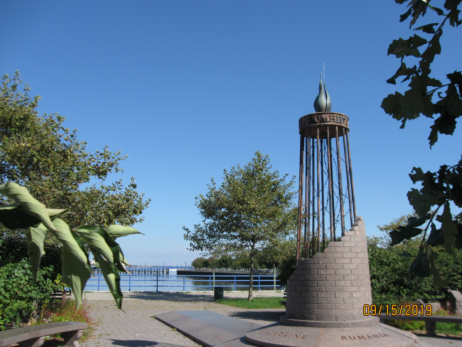 A monument to the Holocaust in Brooklyn NY